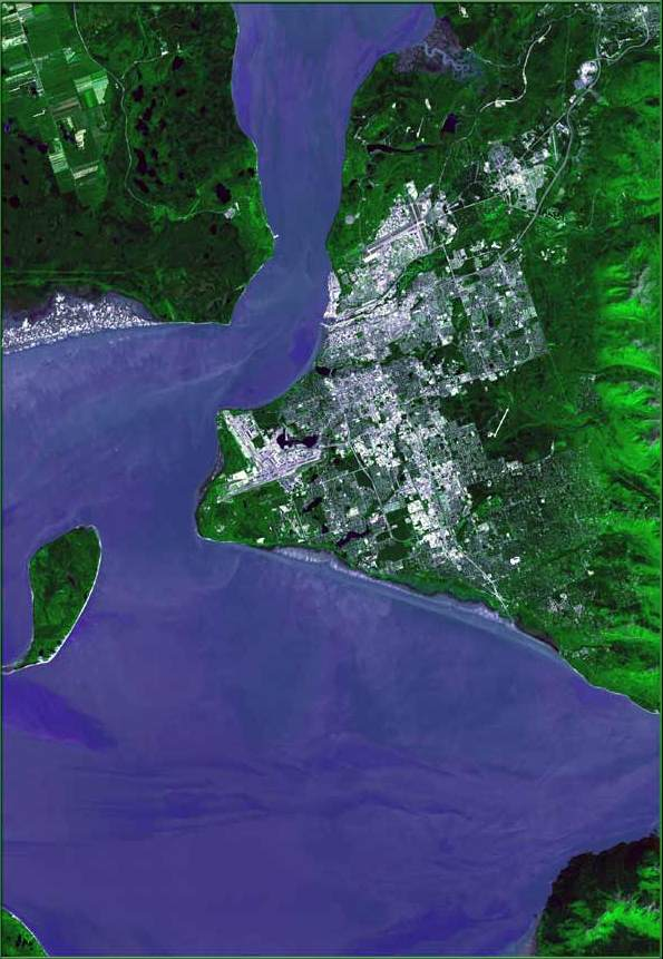 Imagery by NASA and/or the United States Geological Survey. Processed by Terra Prints Inc. Satellite image of Anchorage, Alaska, USA